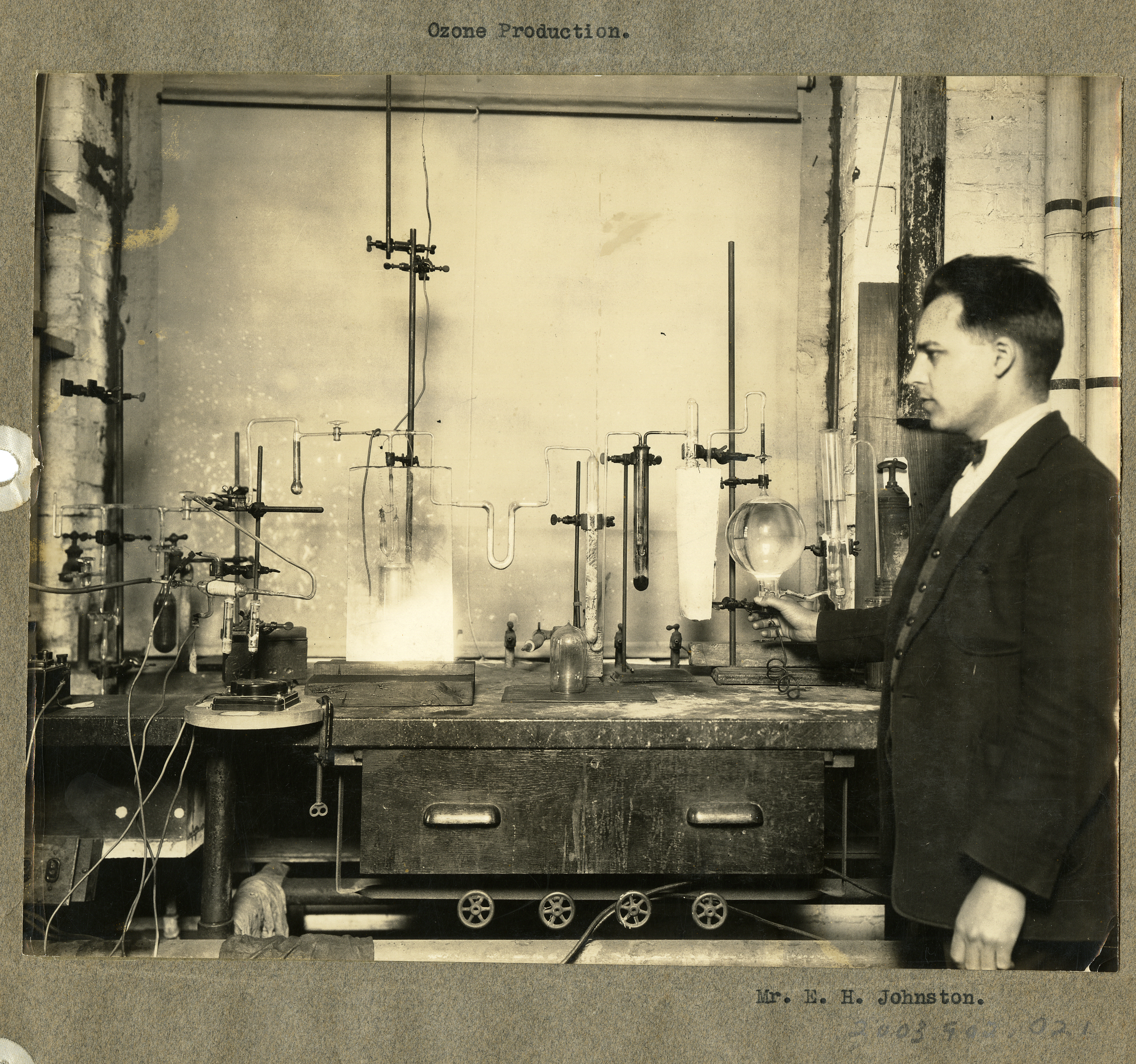 E. H. Johnston demonstrating apparatus for ozone production.